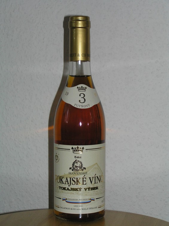 Bottle of Tokajsky vyber 3putnovy (tokaj selection wine). author Legnaw